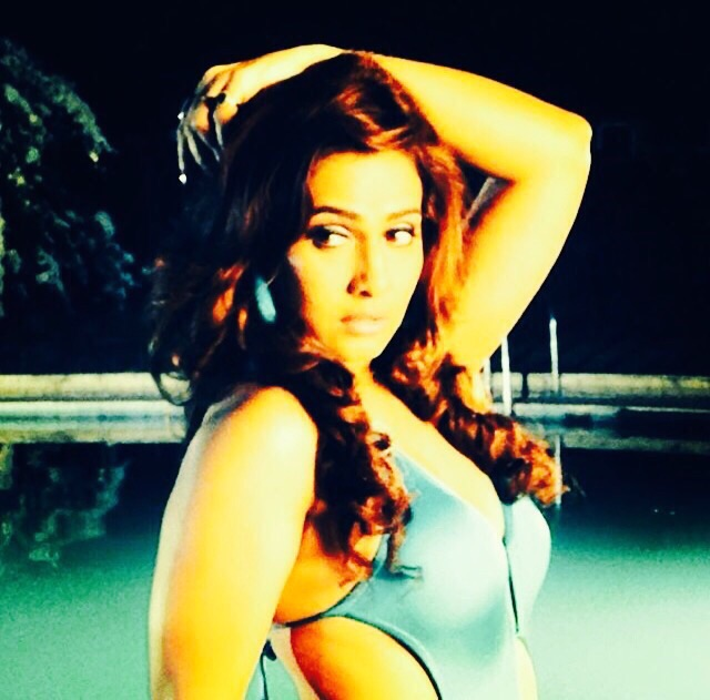 Photo shoot of Pakkhi Hegde